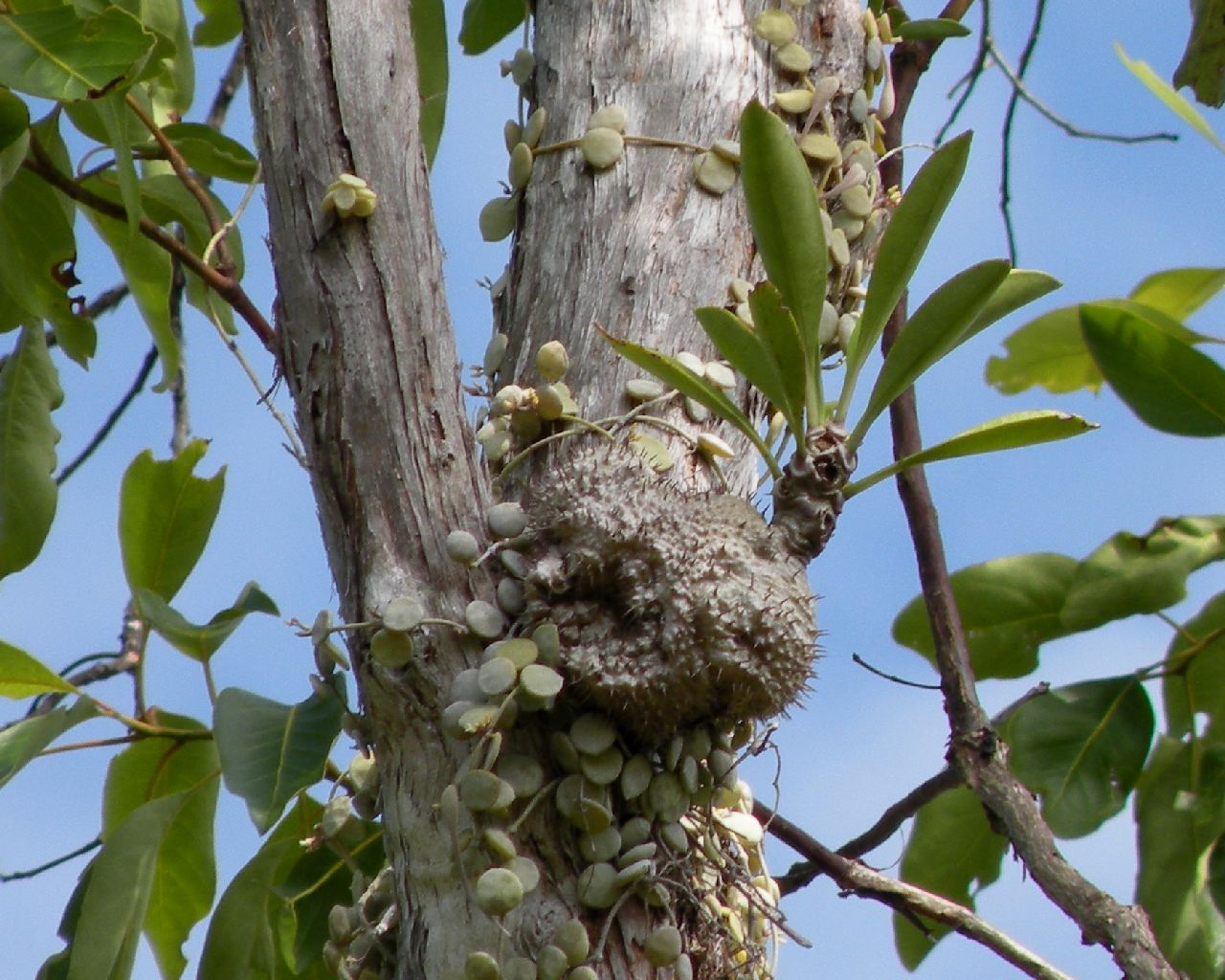 Myrmecodia beccarii (Ant Plant) growing epiphytically on Lophostemom suaveolens with Dischidia nummularia (Button Orchid - not a true orchid) in wetlands of tropical north Queensland, Australia. You can see Dischidia flowers silhouetted against the sky in the fork of the tree, and three tear-drop shaped fruits immediately above the two largest Myrmecodia leaves.